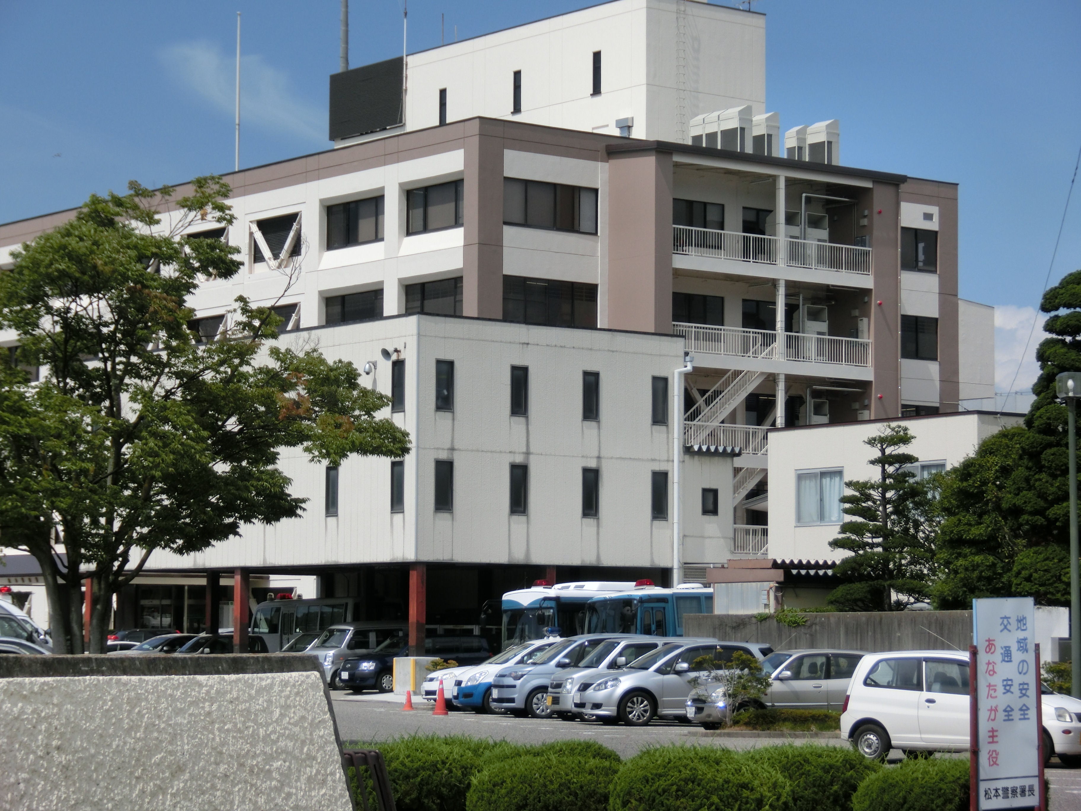 Matsumoto Police Station